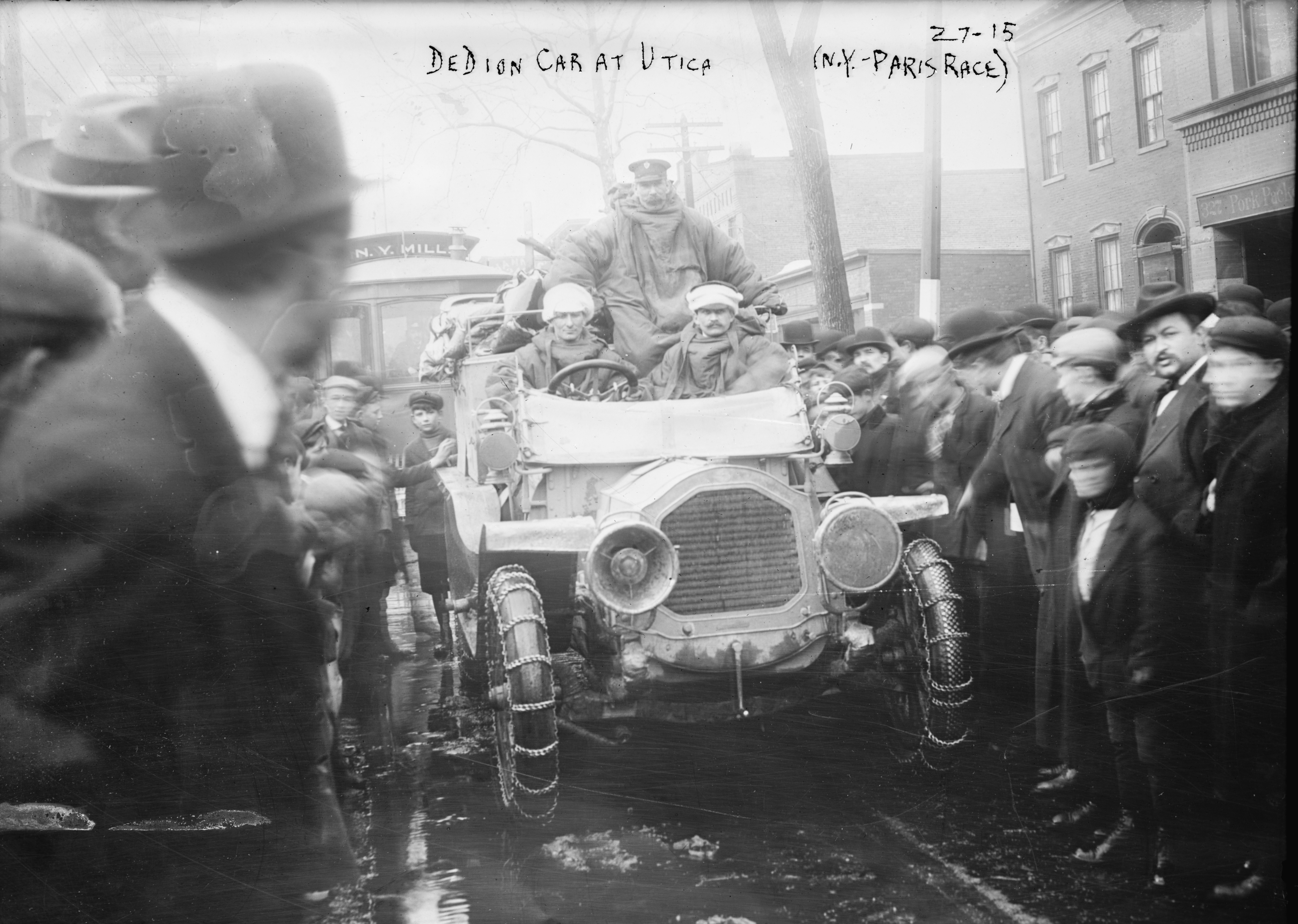 Dedion car at Utica - 1908 New York to Paris Race